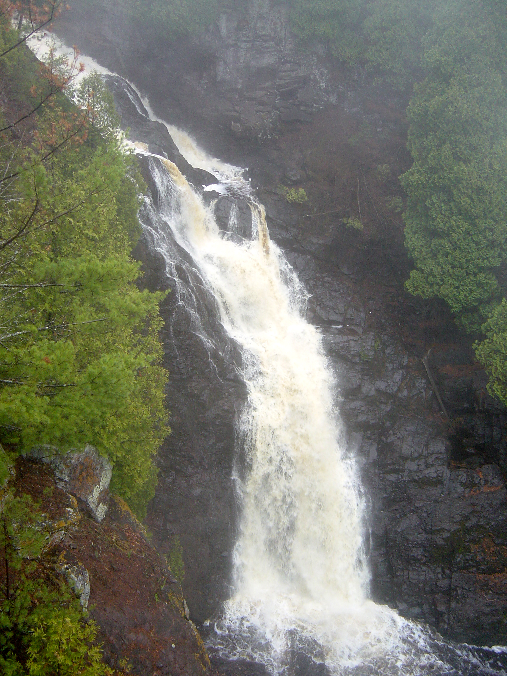 Big Manitou Falls, the tallest waterfall in Wisconsin, in Pattison State Park just south of Superior, Wisconsin, USA